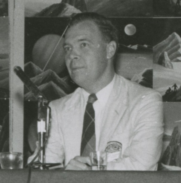 14th World Science Fiction Convention, 1956. From left to right, John W. Campbell, Willy Ley and Hal Clement.